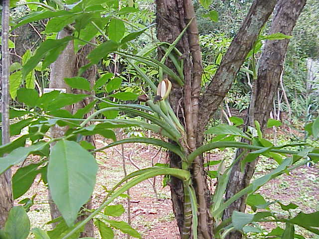 Species: Syngonium podophyllum Family: Araceae Image No. 3